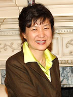 South Korean politician Park Geun-hye